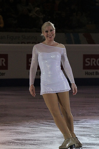 Denise Biellmann at the 2011 European Figure Skating Championships